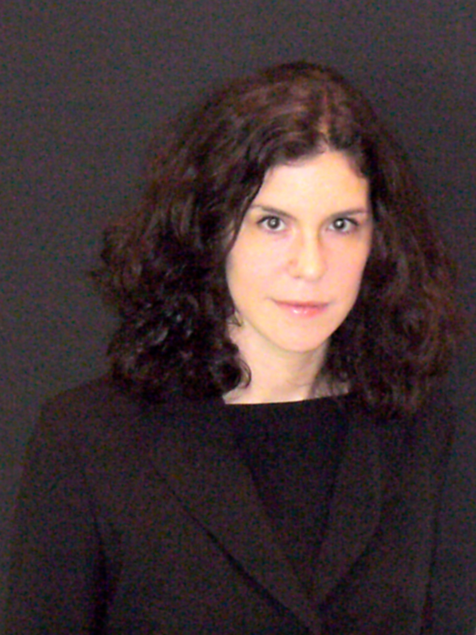 Megan McArdle 4 by David Shankbone